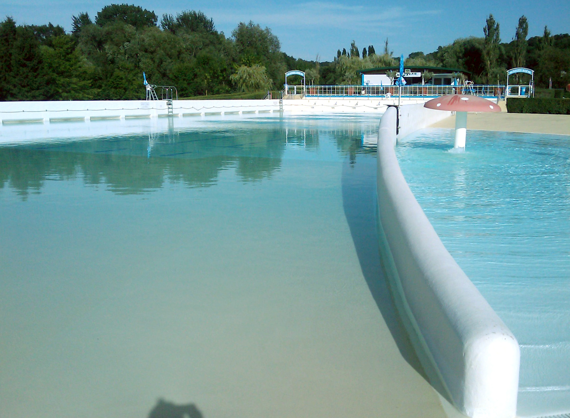 Swimming pool in Étampes (Essonne, France).